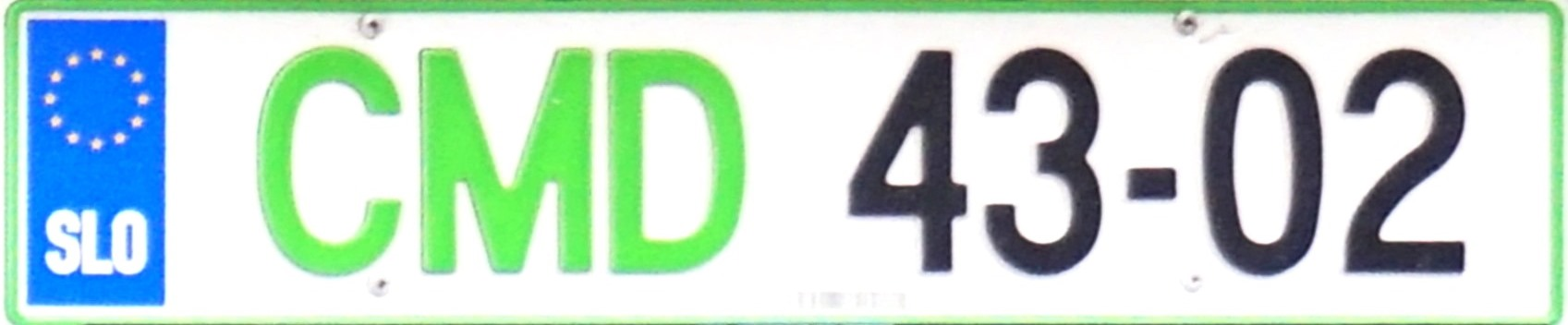 Slovenian diplomatic number plate CMD (Chef de Mission Diplomatique)